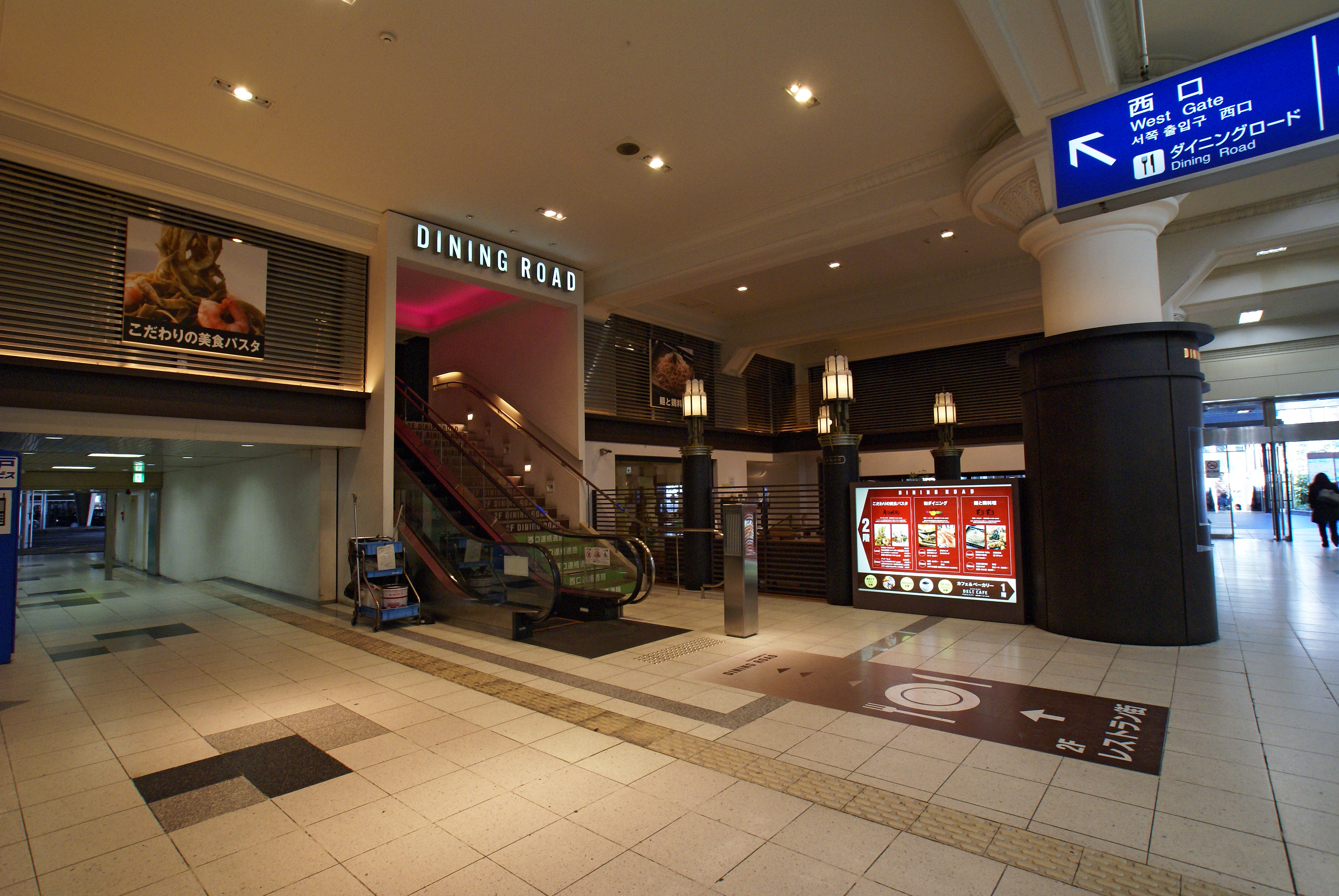 DINING ROAD of JR Sannomiya Station in Kobe, Hyogo, Japan